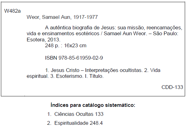 Example of Cataloging in Publication